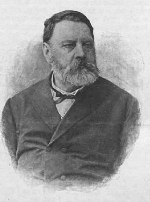 Béla Szász translator